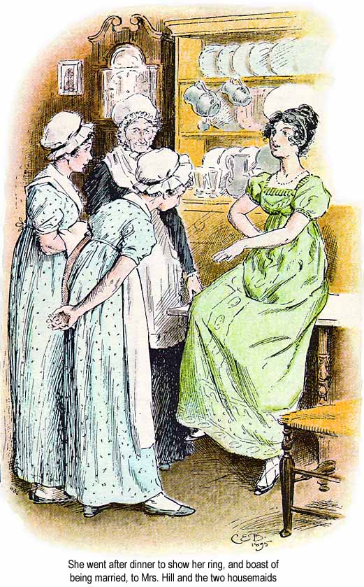 C. E. Brock illustration for the 1895 edition of Jane Austen's novel Pride and Prejudice (Chapter 51): Lydia went after dinner to show her ring